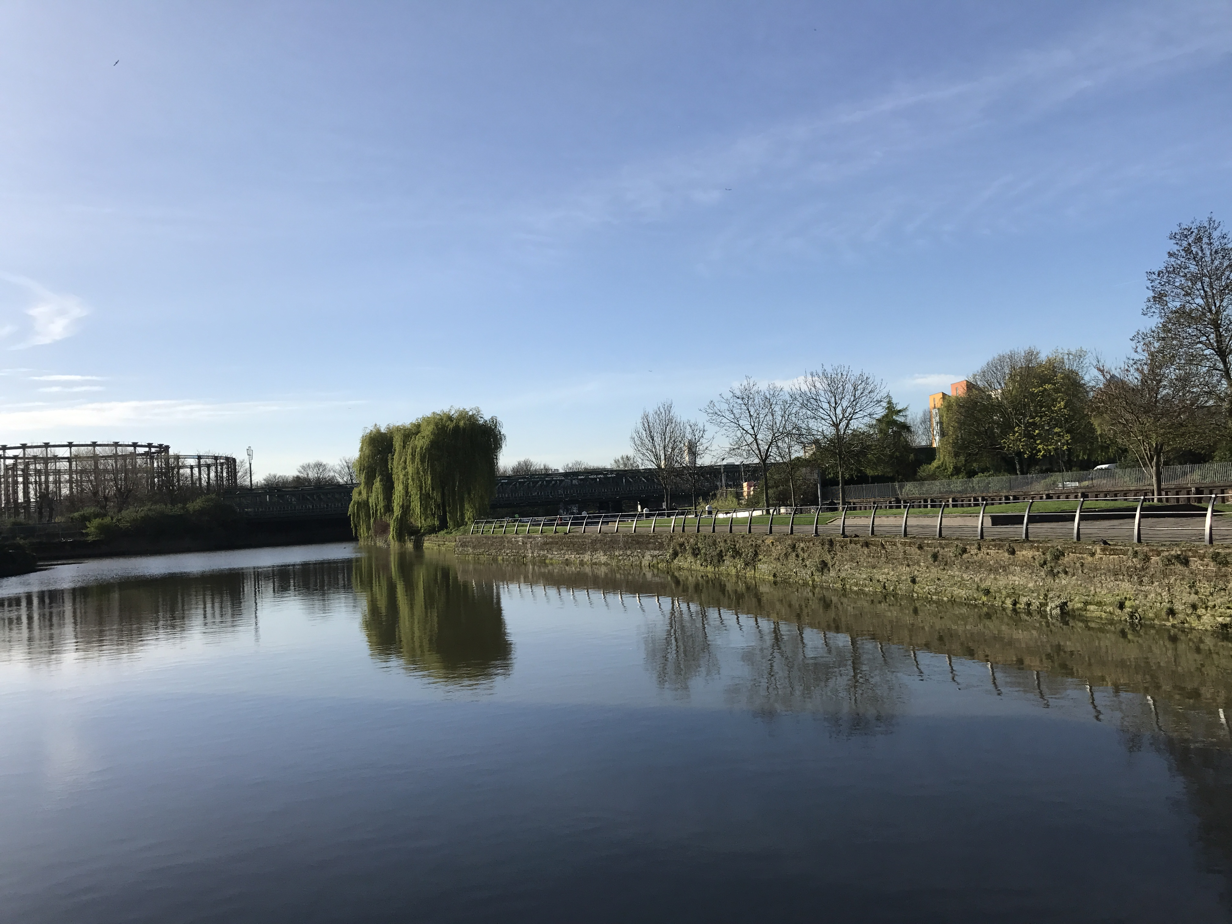 View across the River Lea at Three Mills Lane